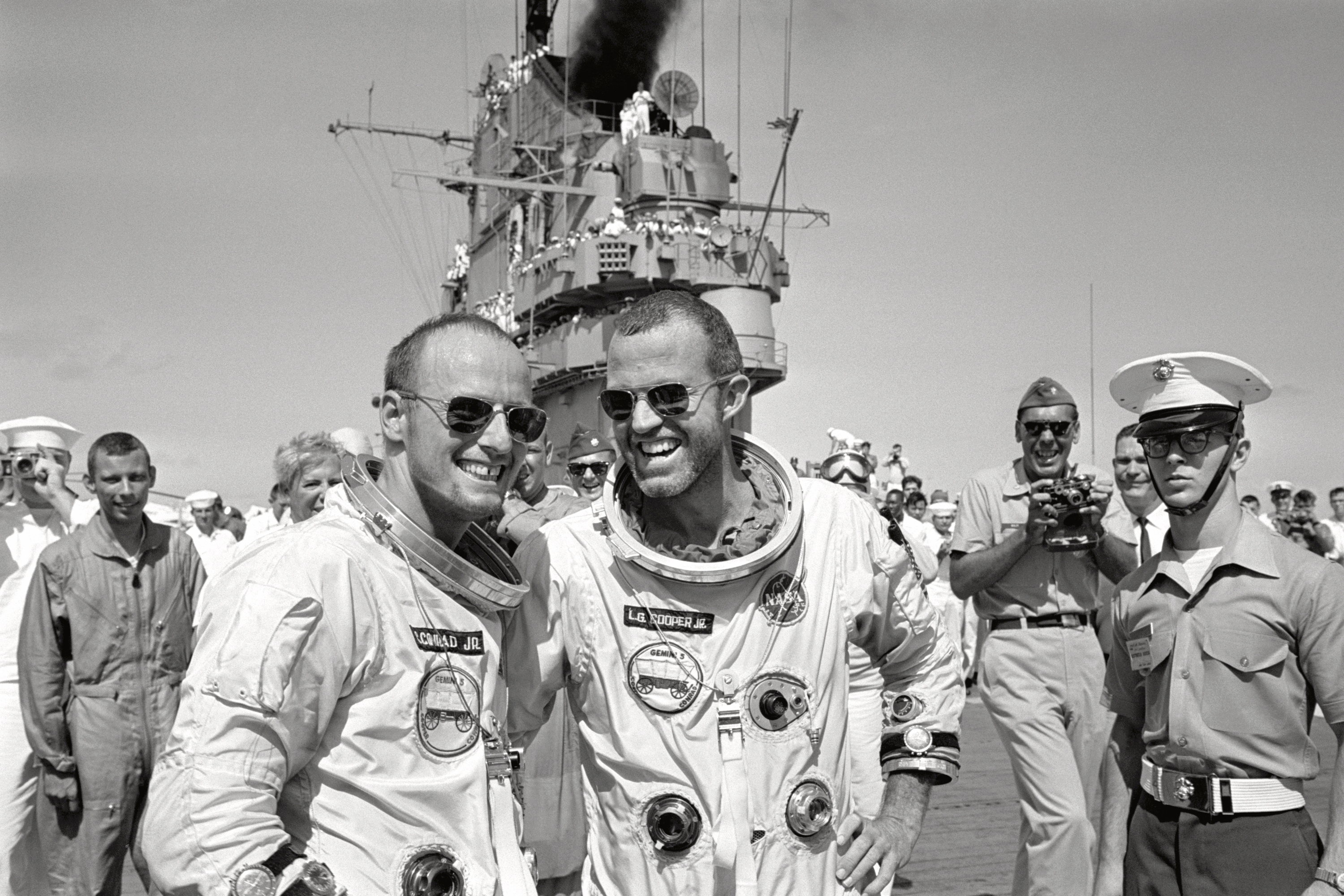 The U.S. astronauts L. Gordon Cooper Jr. (right) and Charles Conrad Jr. walk across the deck of the recovery aircraft carrier USS Lake Champlain (CVS-39) following splashdown and recovery from the ocean, 29 August 1965.